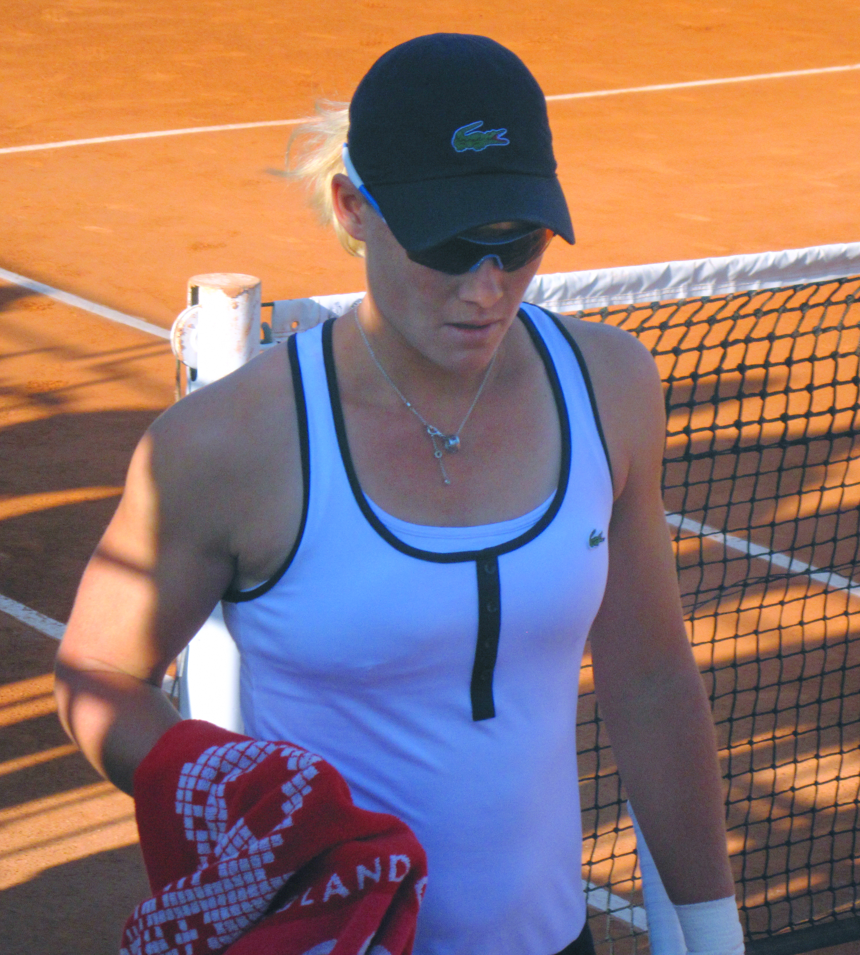 Samantha Stosur at 2009 Roland Garros, Paris, France.